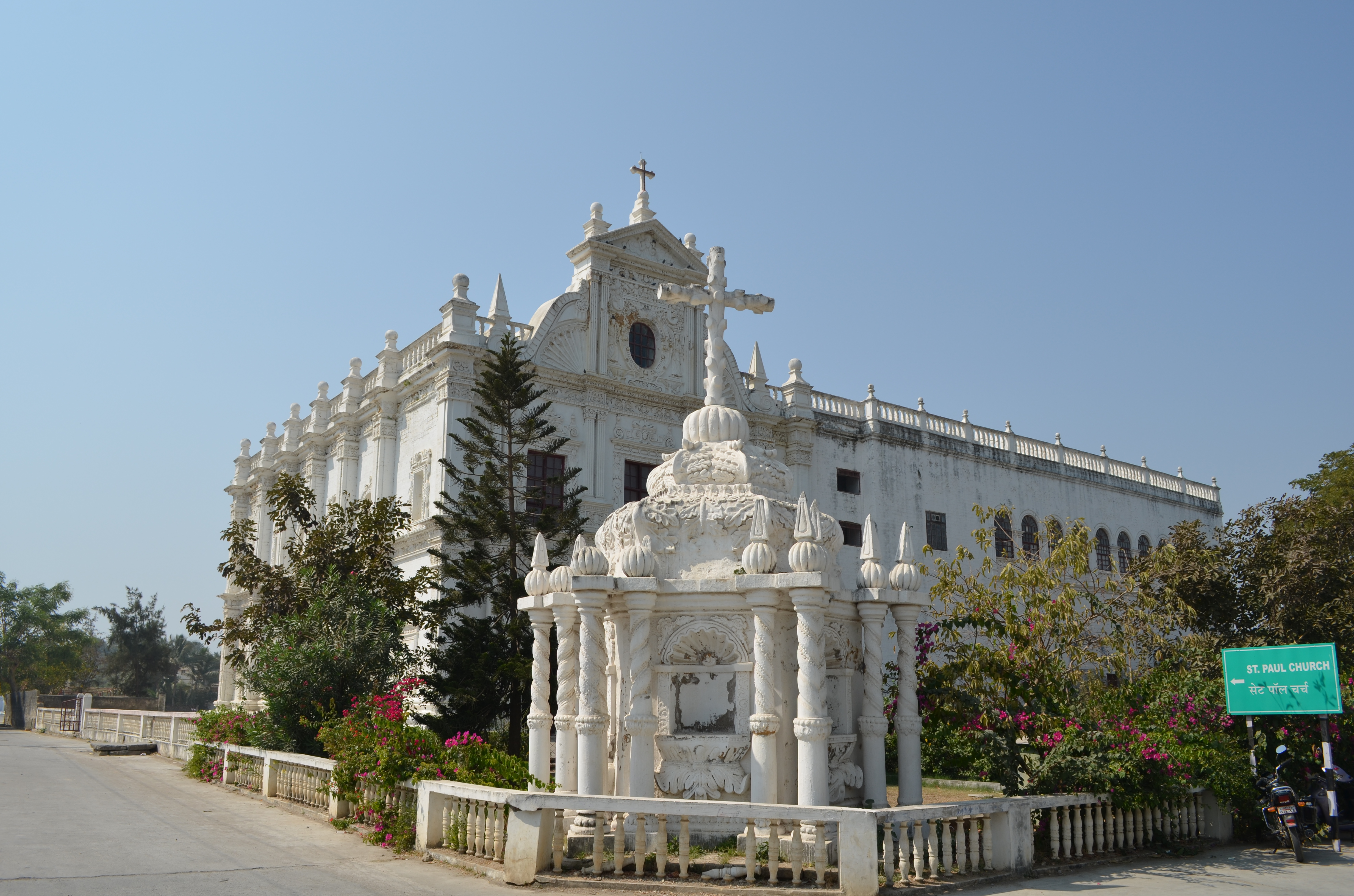 A PERSPECTIVE VIEW OF ST PAUL CHURCH AT DIU